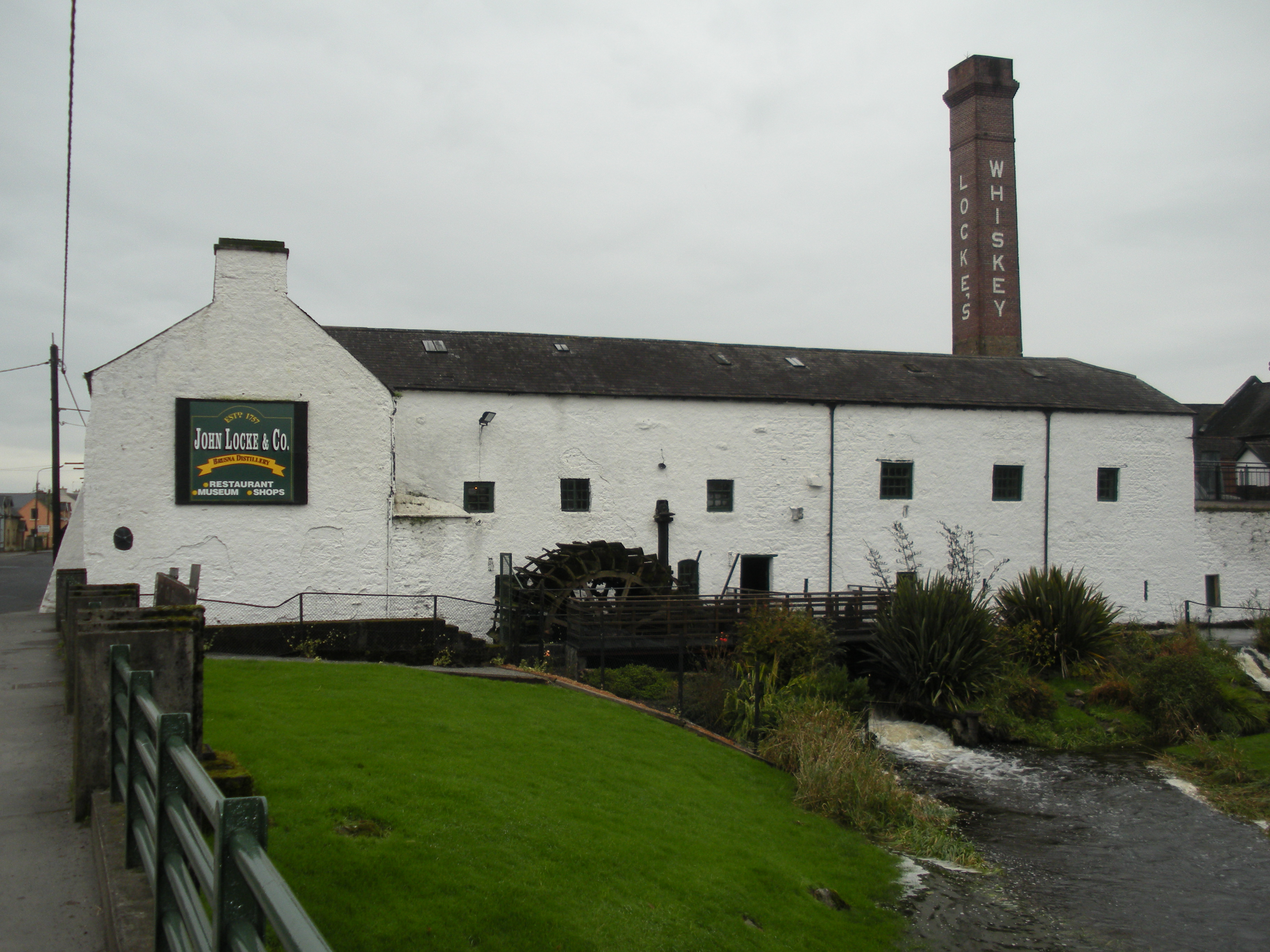 Locke`s Distillery in Kilbeggan